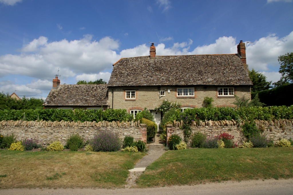 Millett's Farm Cottages, Garford, Oxfordshire (formerly Berkshire), seen from the southeast